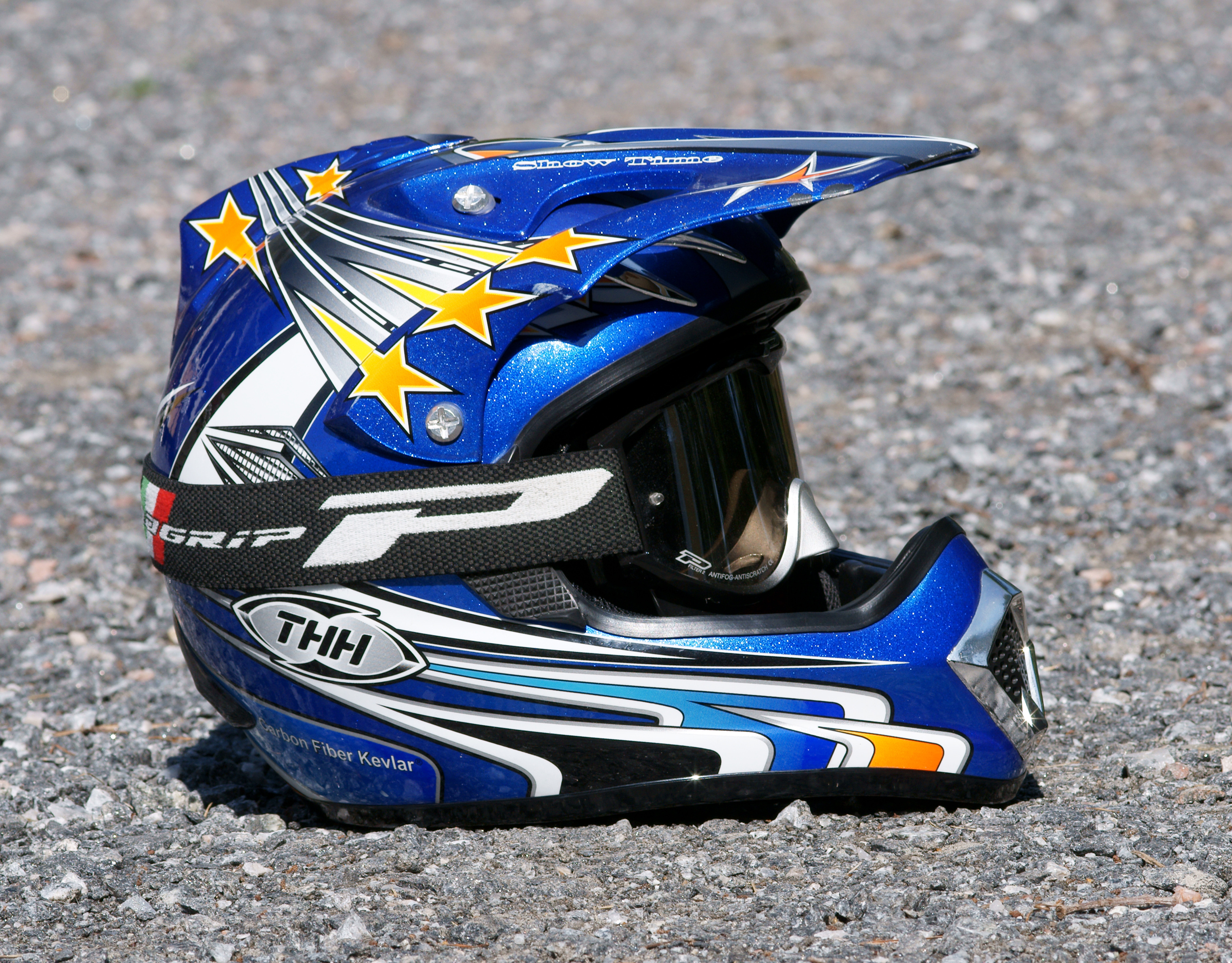 A motocross helmet.